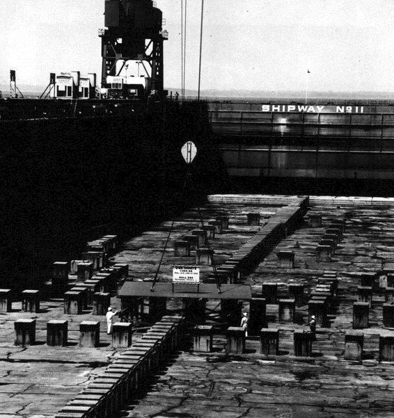 Lyaing of the keel plate of the U.S. Navy aircraft carrier USS Nimitz (CVAN-68) at Newport News Shipbuilding, Virginia (USA), on 22 June 1968.